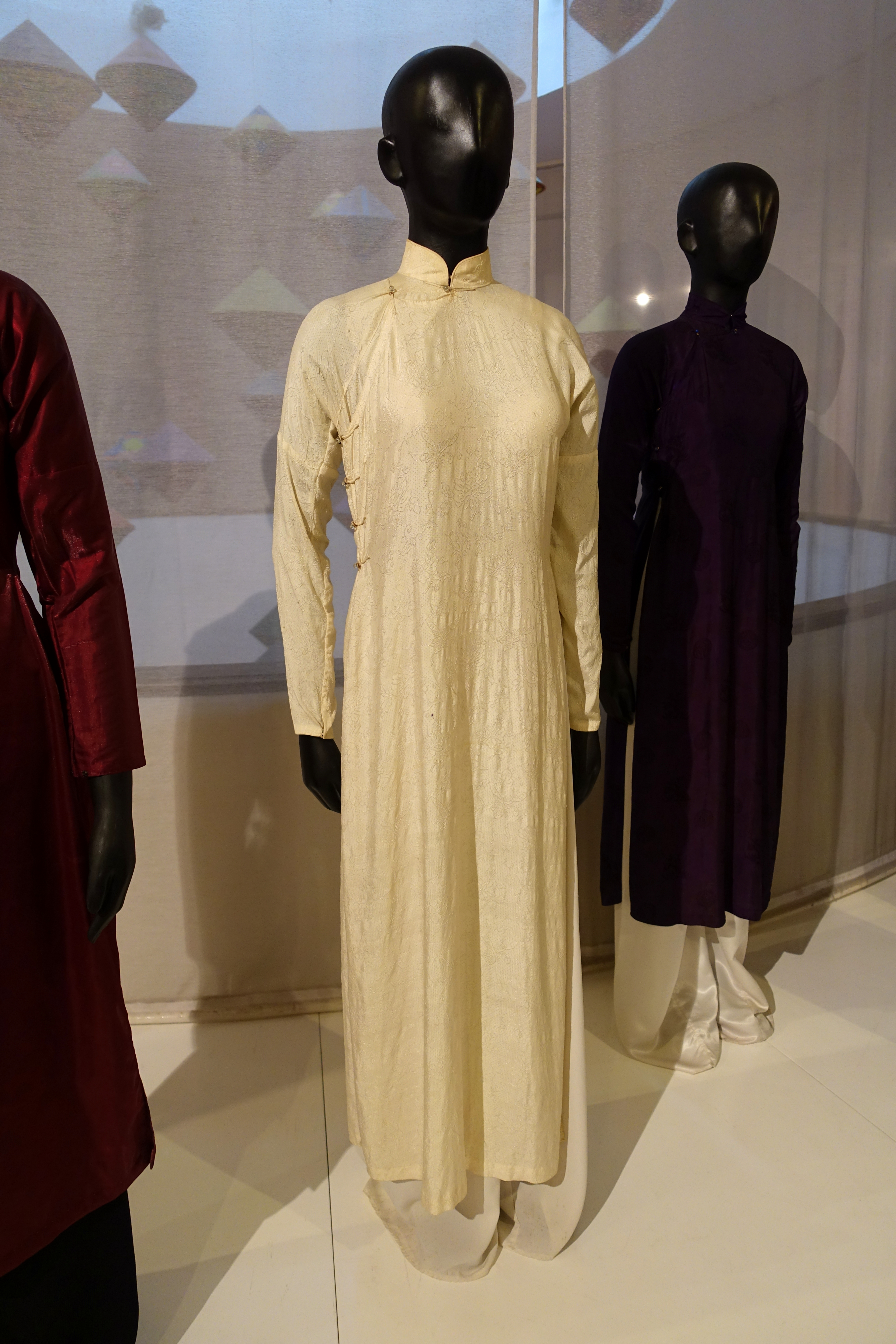 Exhibit in the Vietnamese Women's Museum, Hanoi, Vietnam.